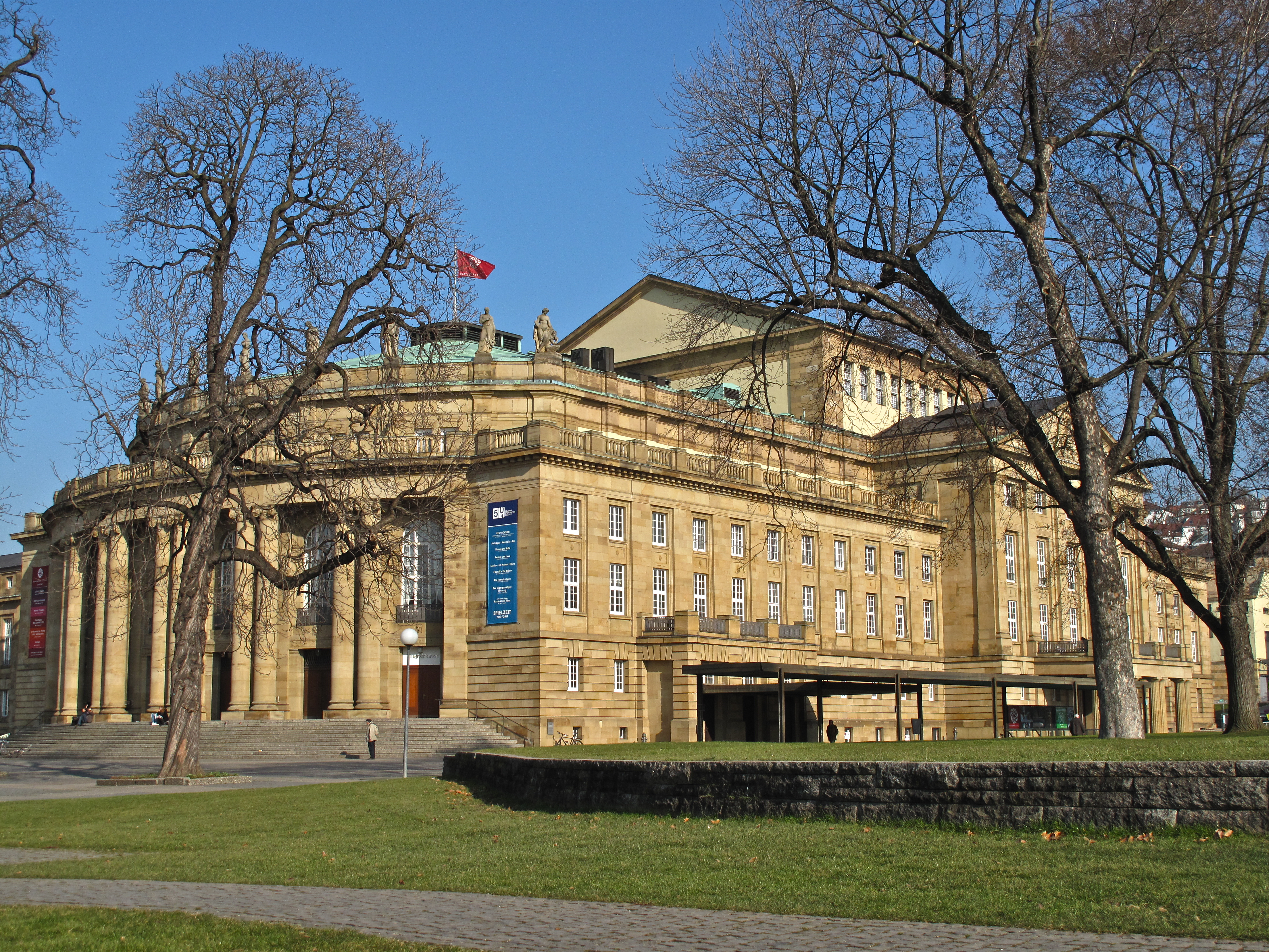 The Staatstheater Stuttgart in the Schlossgarten in the city centre of Stuttgart.